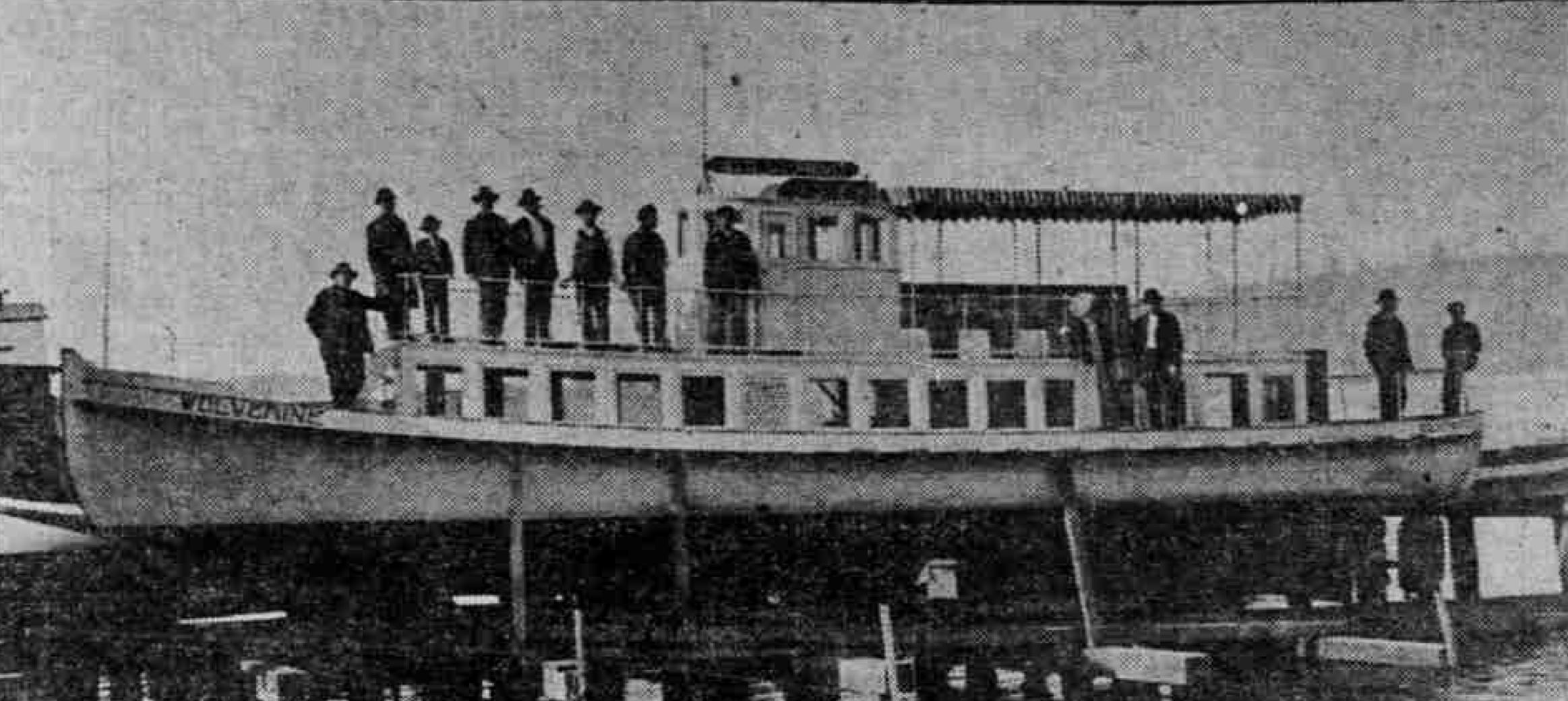 Motor vessel Wolverine shipways just prior to launch, 1908